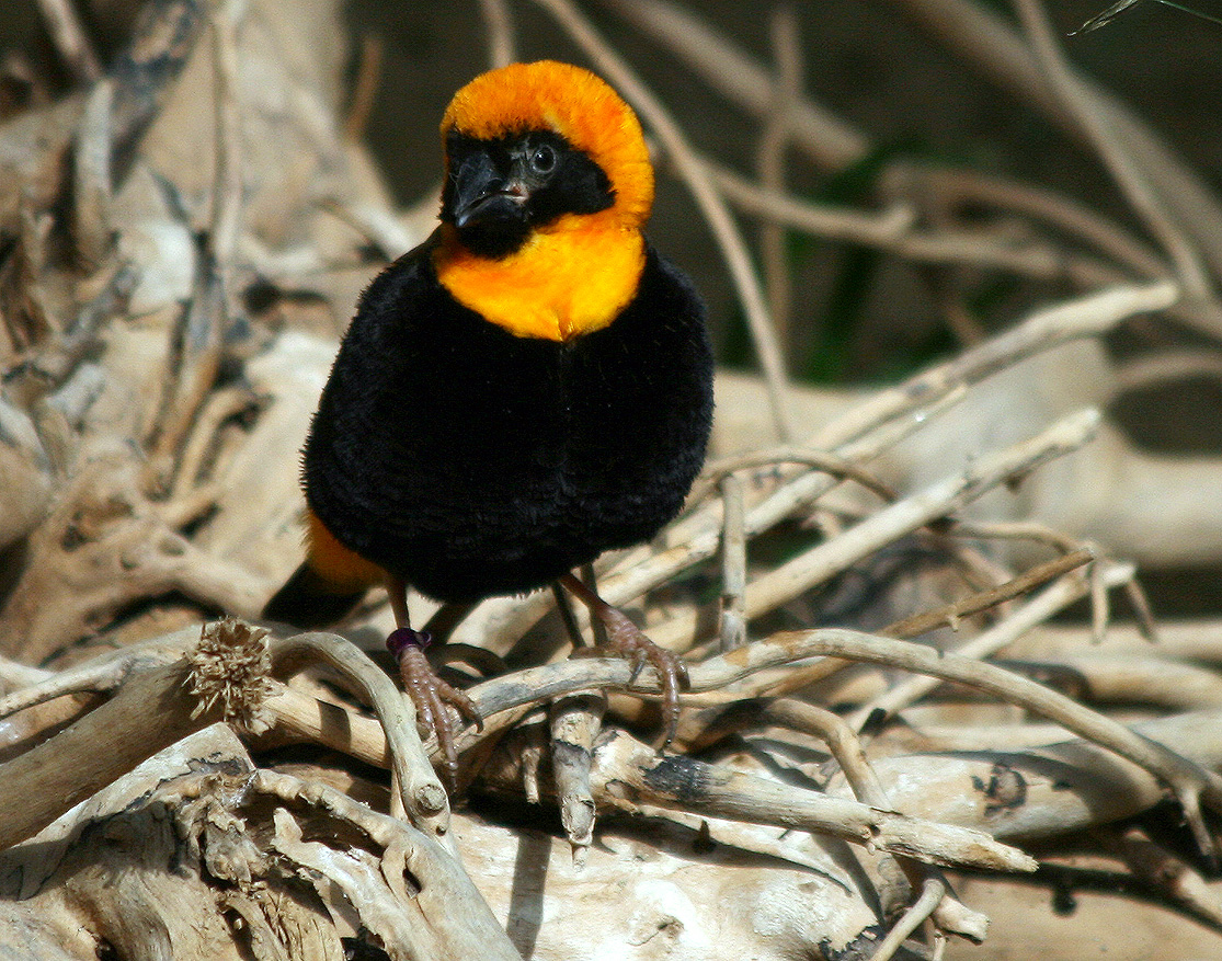 Southern Red Bishop at the Tiergarten Schönbrunn in Vienna